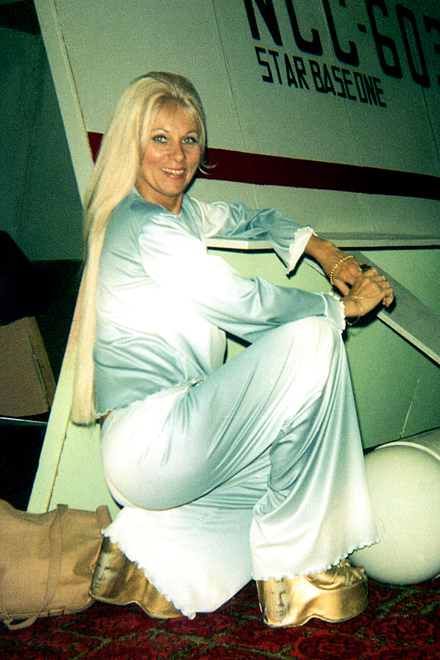 Grace Lee Whitney appearing at a science fiction convention in Houston, Texas, United States.